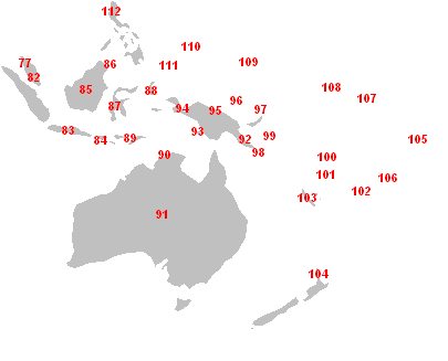 Distribution of standard cross-cultural sample cultures in Australia and Oceania